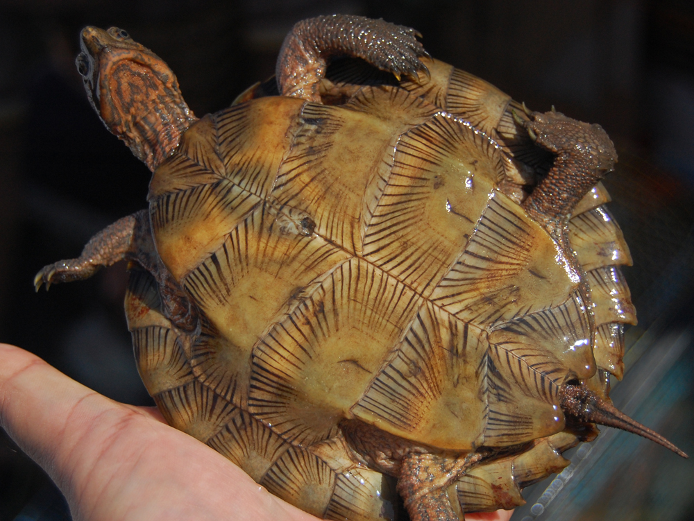 Plastron of young Cyclemys dentata (carapace length 11cm). From Banten, West Java, Indonesia.